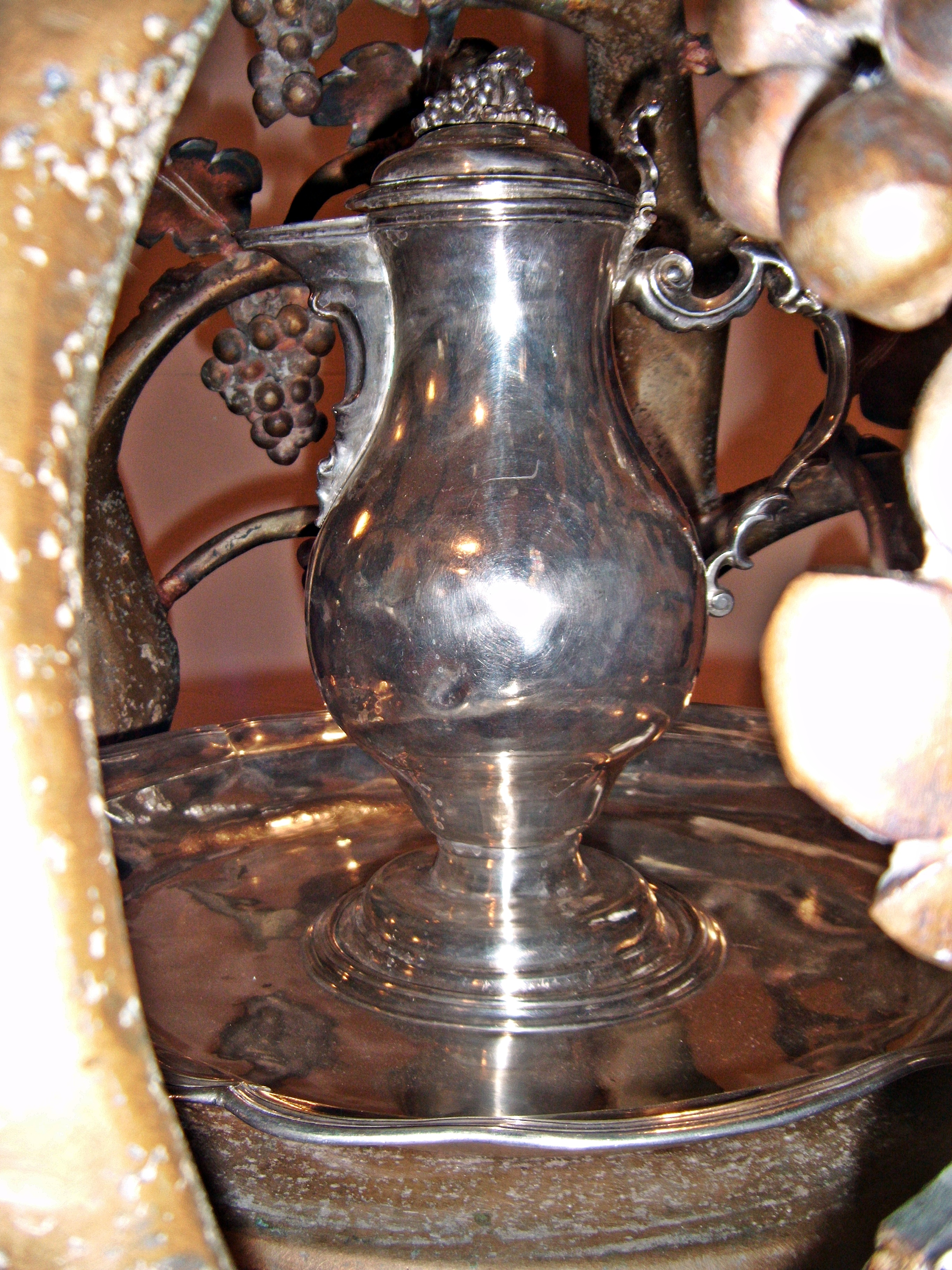 Friedelsheim, Protestantische Kirche, Taufgarnitur der Gräfin von Wiser, 1770